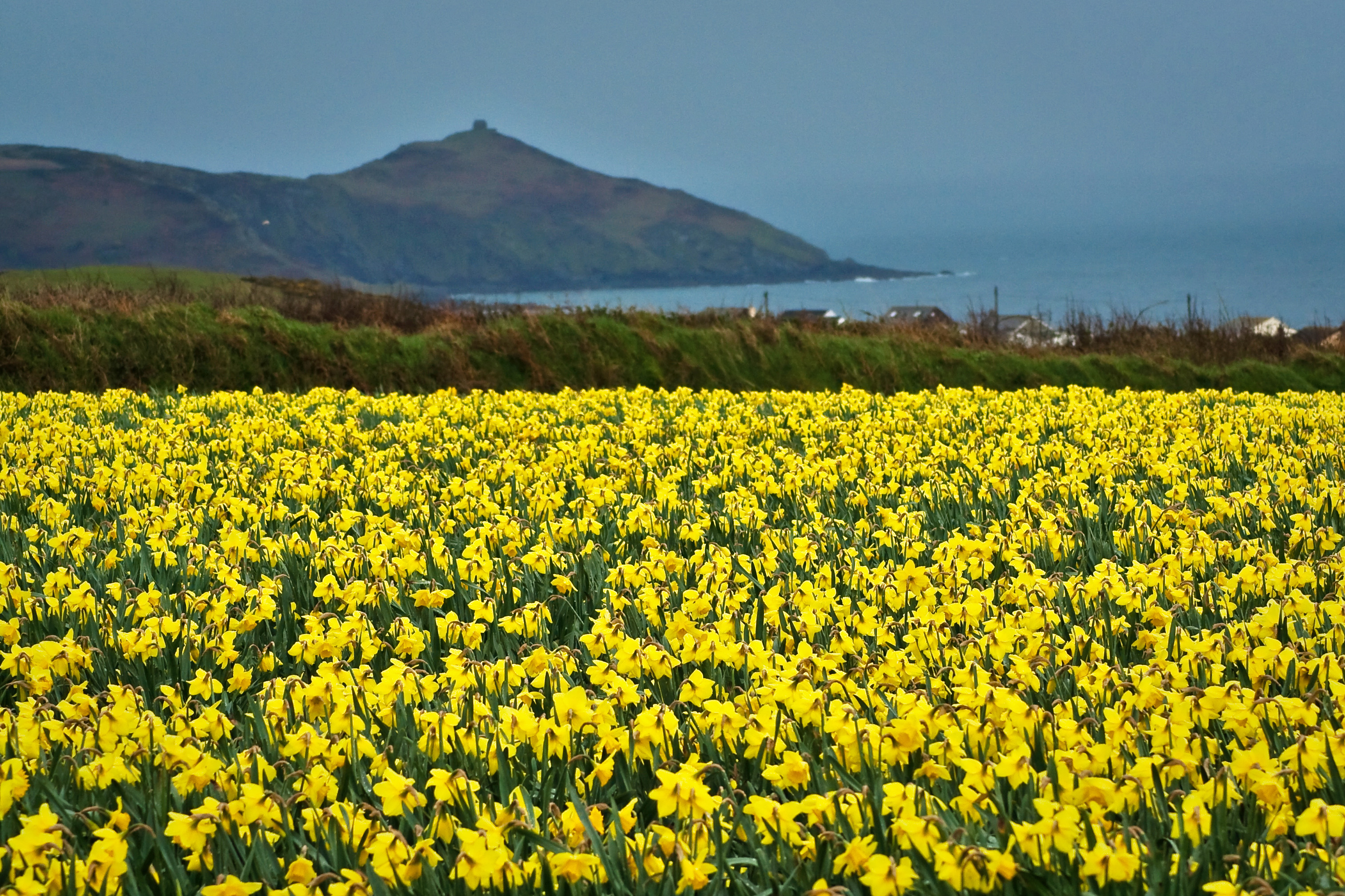 Daffodil field in South East Cornwall